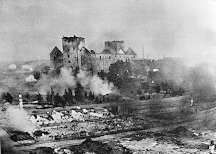 Turku castle after the great bombings in 1941 by the Soviet Union.